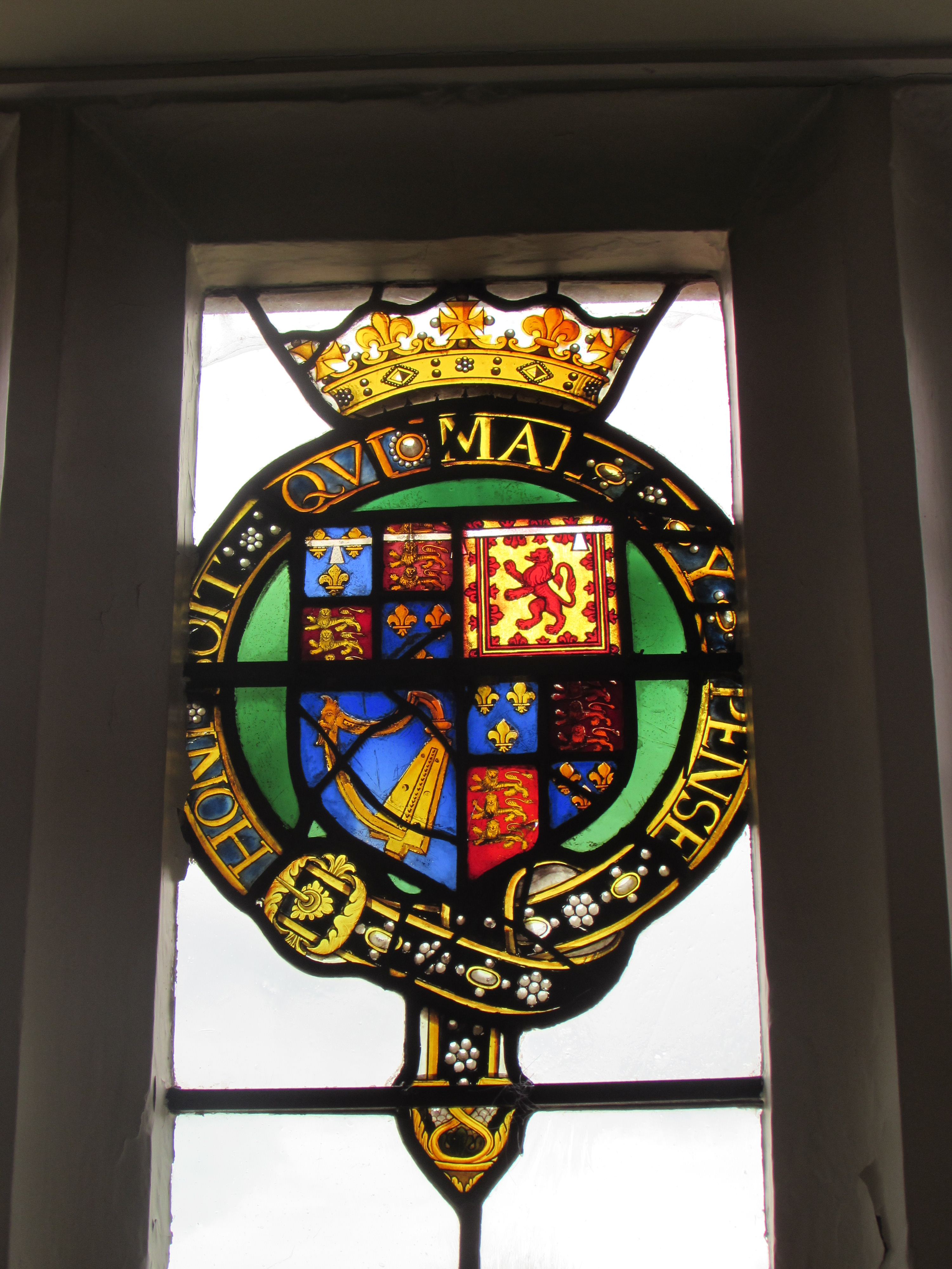 A stained glass inset in an upper window of Salisbury Museum (the King's House). It shows the coat of arms of Henry Frederick, Prince of Wales (the elder son of James VI and I, King of England and Scotland, and his wife, Anne of Denmark) who visited the King's House with his parents in 1610. The inset gives the impression that it was not made for this window. Made by Kempe which dates it as probably late Victorian.